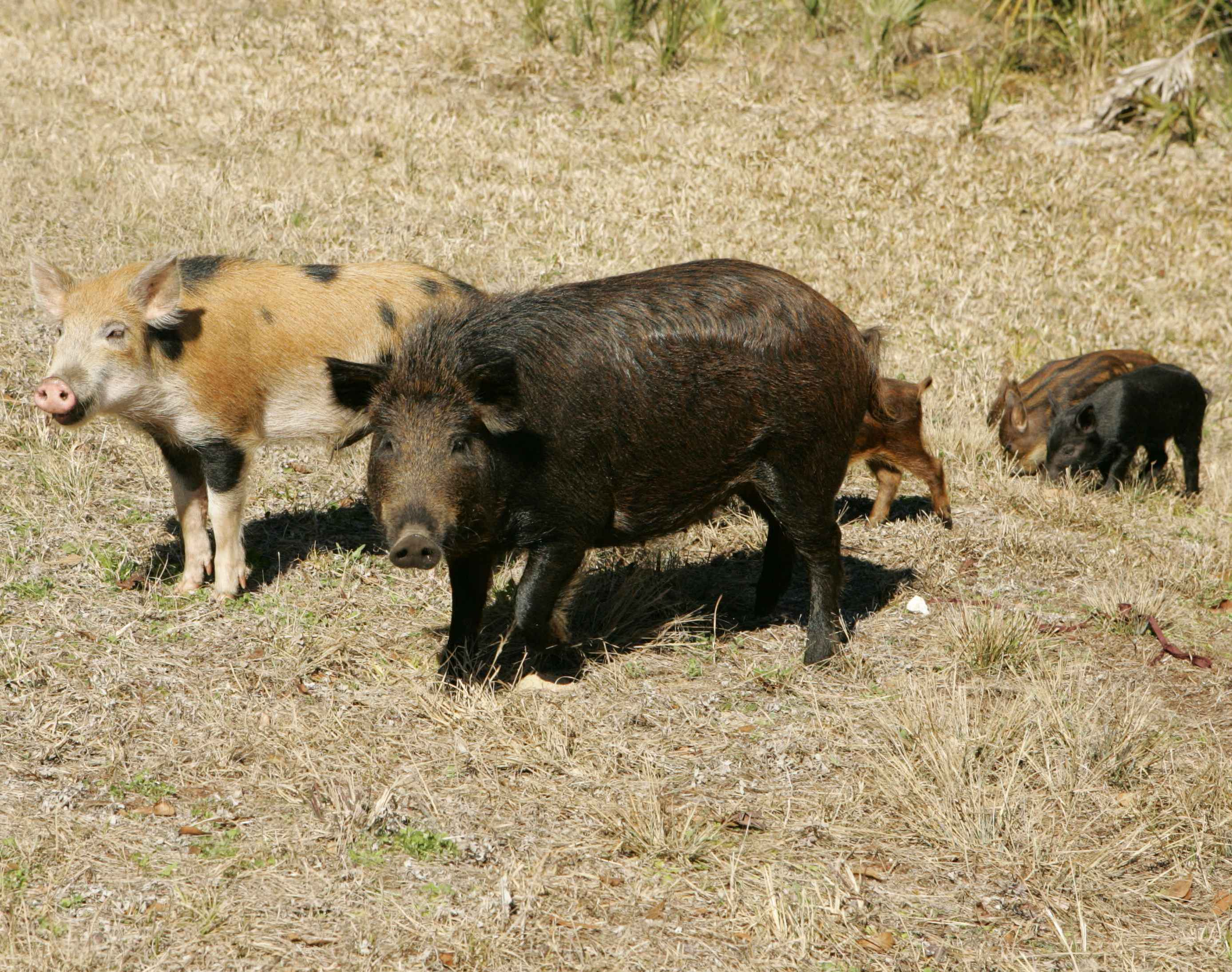 Image title: Wild hogs family Image from Public domain images website